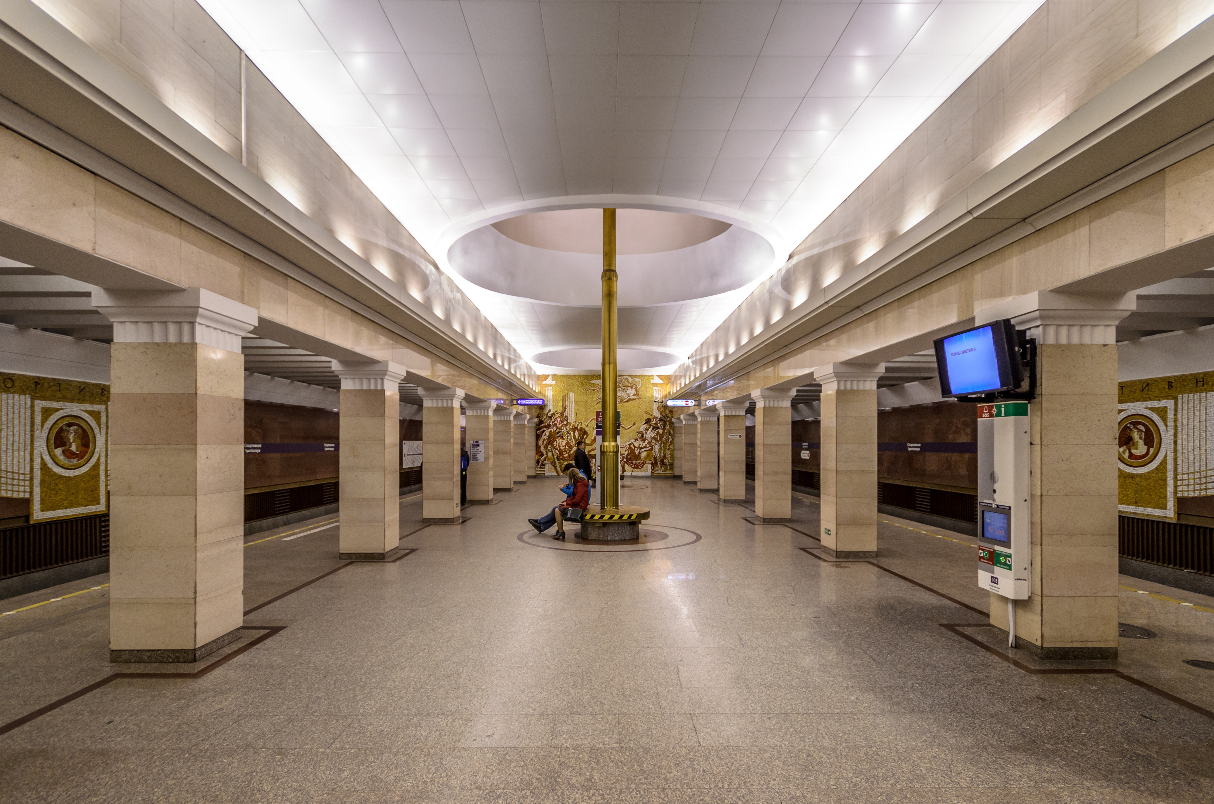 Sportivnaya subway station in Saint Petersburg, Lower Hall